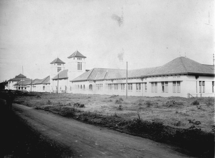 The Centrale Burgerlijke Ziekeninrichting (CBZ) hospital and Medical Laboratory in Salemba, Weltevreden